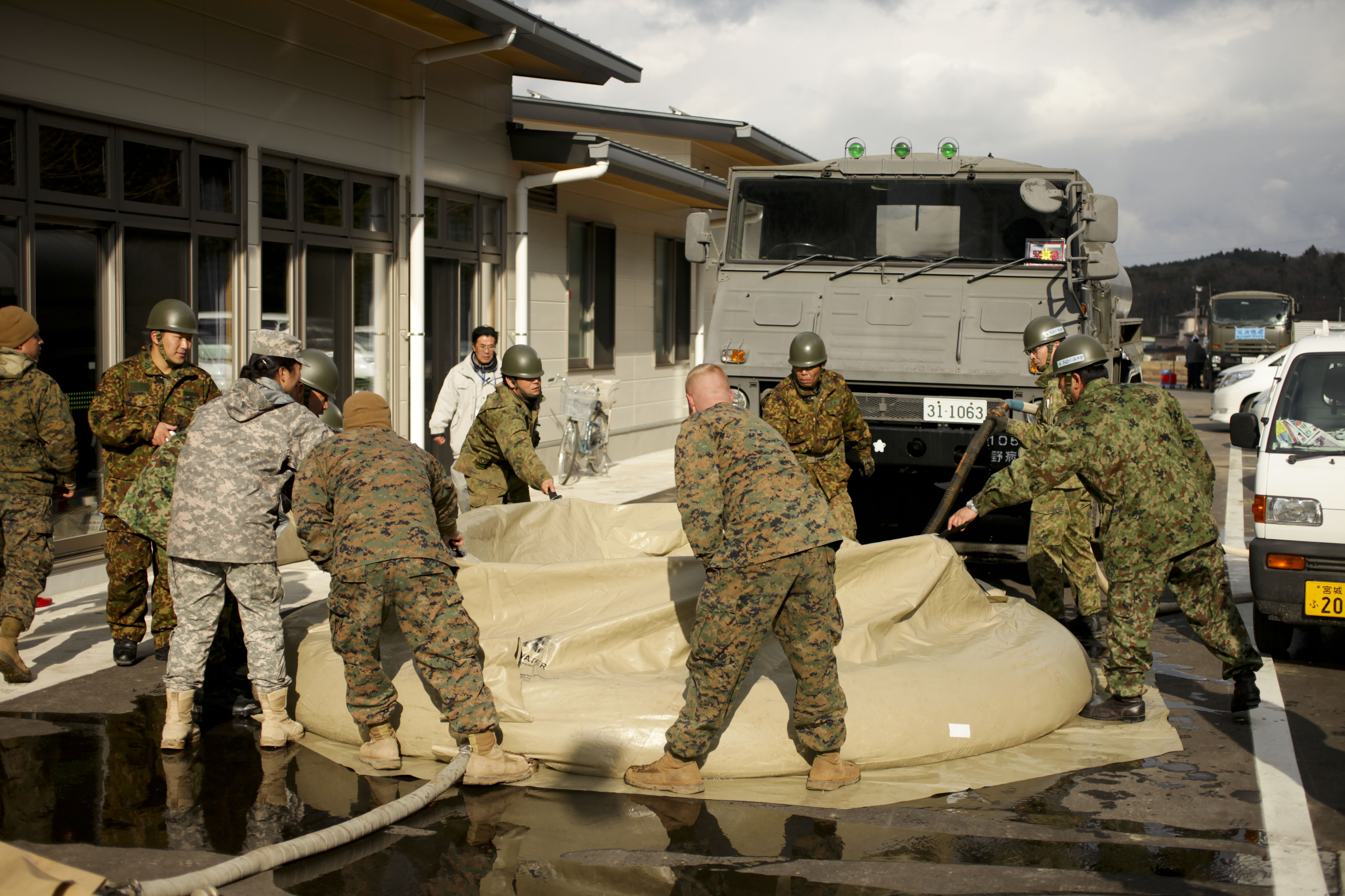 JSDF works with USMC to build an emergency field shower unit, East Matsushima